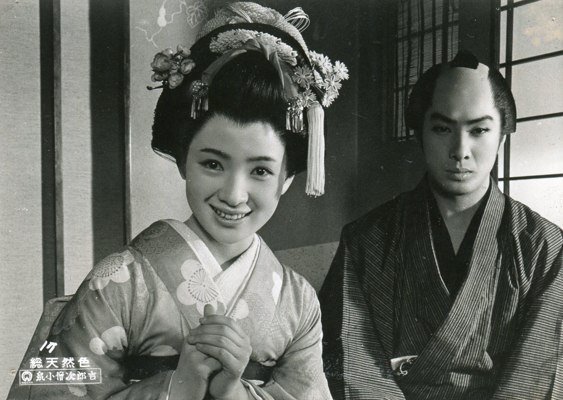 From L to R: Michiko Sugata and Yoichi Hayashi in "Nezumi Kozo Jirokichi" (1965) - publicity still